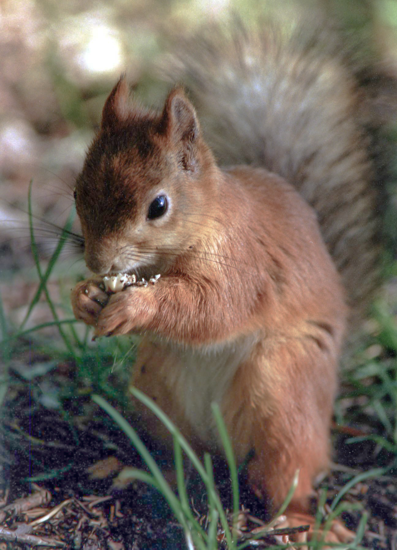 A european squirrel (Sciurus vulgaris) eating a nut.